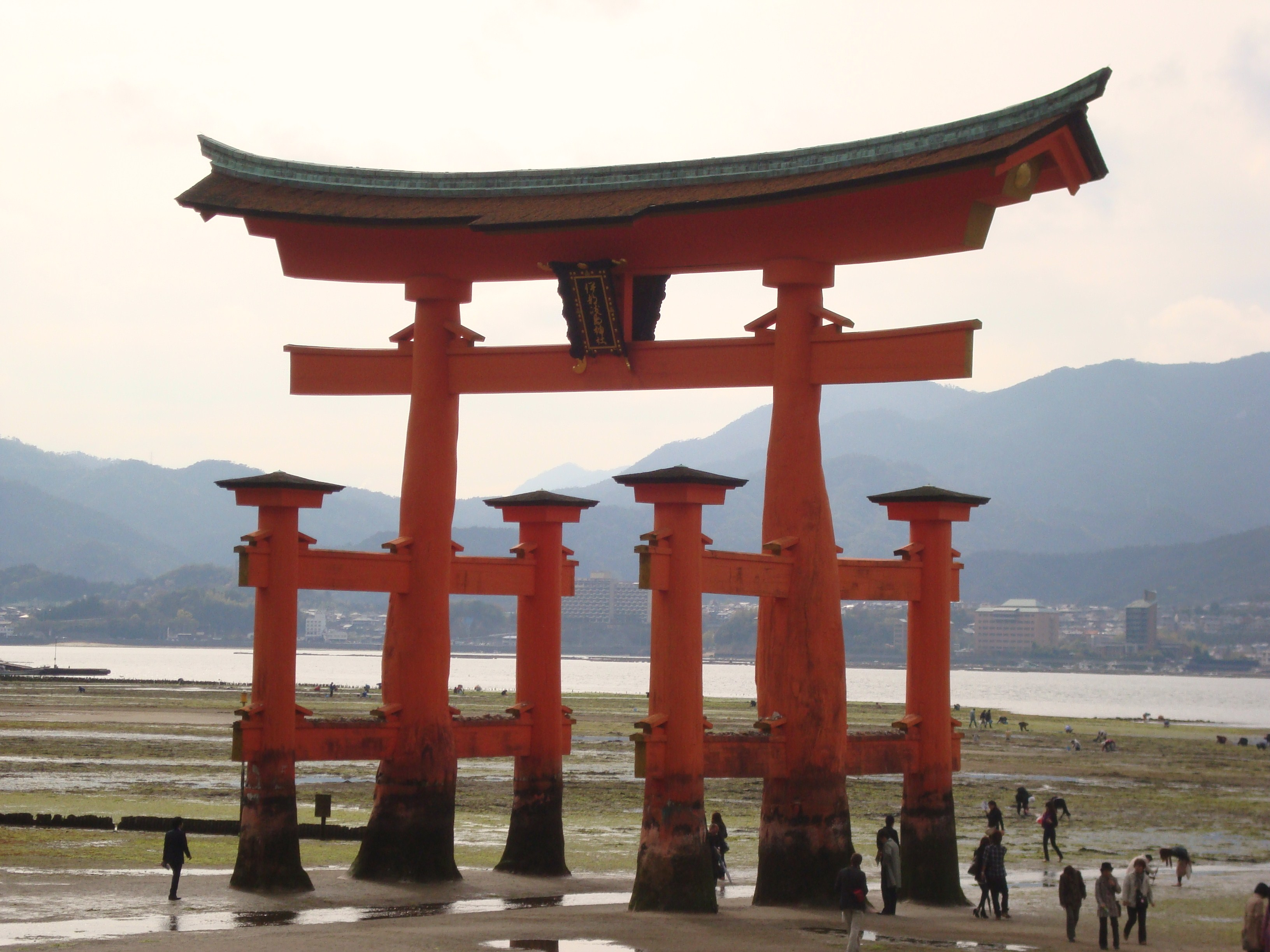 Itsukushima Shinto Shrine (The big "Torii" at low tide)